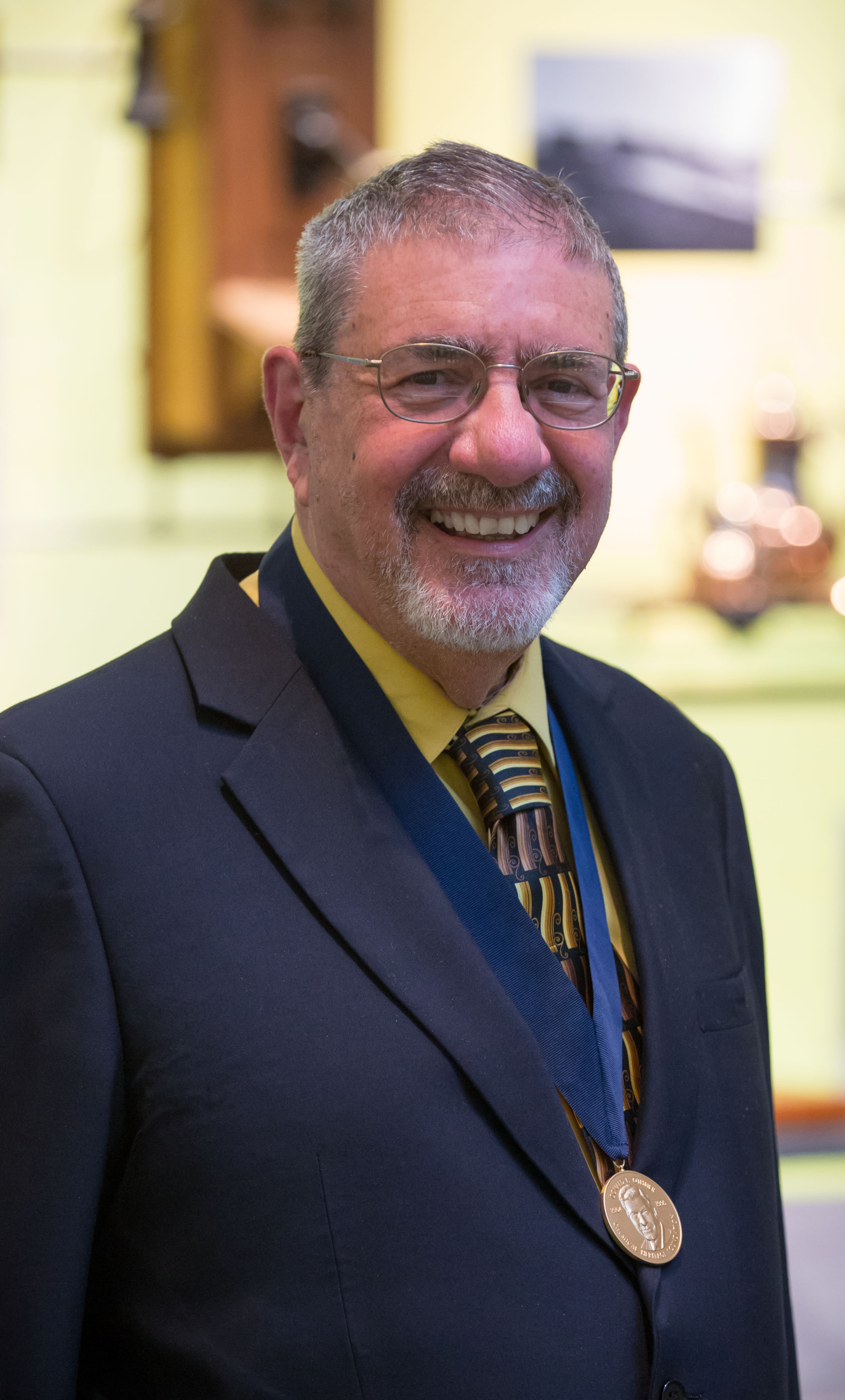 Photograph of Richard Zare, with the Othmer Gold Medal, awarded 10 May 2017, at the Chemical Heritage Foundation.